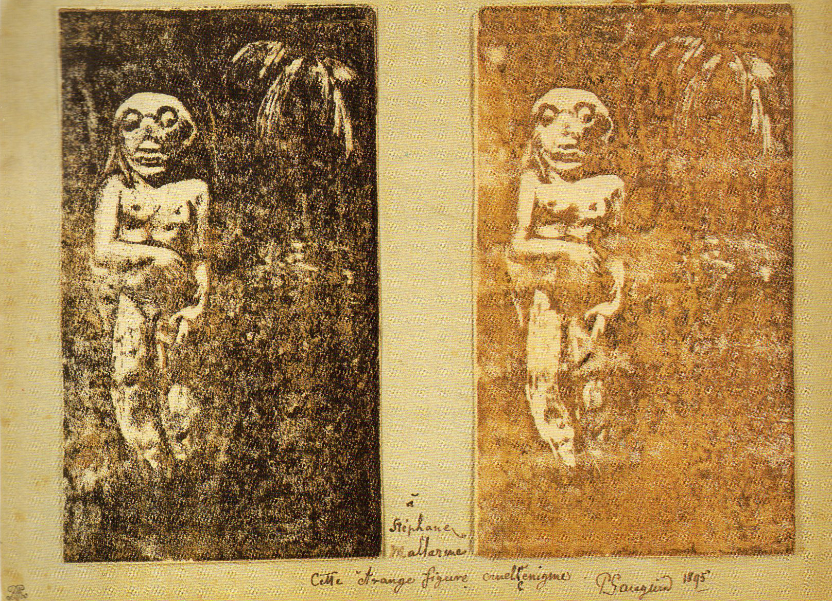 Two impressions of a woodblock depicting Gauguin's Oviri figure, dedicated and signed on a presentation mount